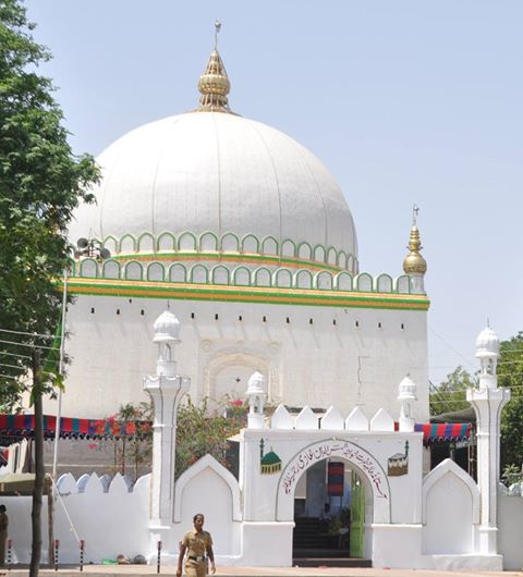 Entrance Gate of Dargah Hazarat Kwaja Shamshoddin Gazi Osmanabad